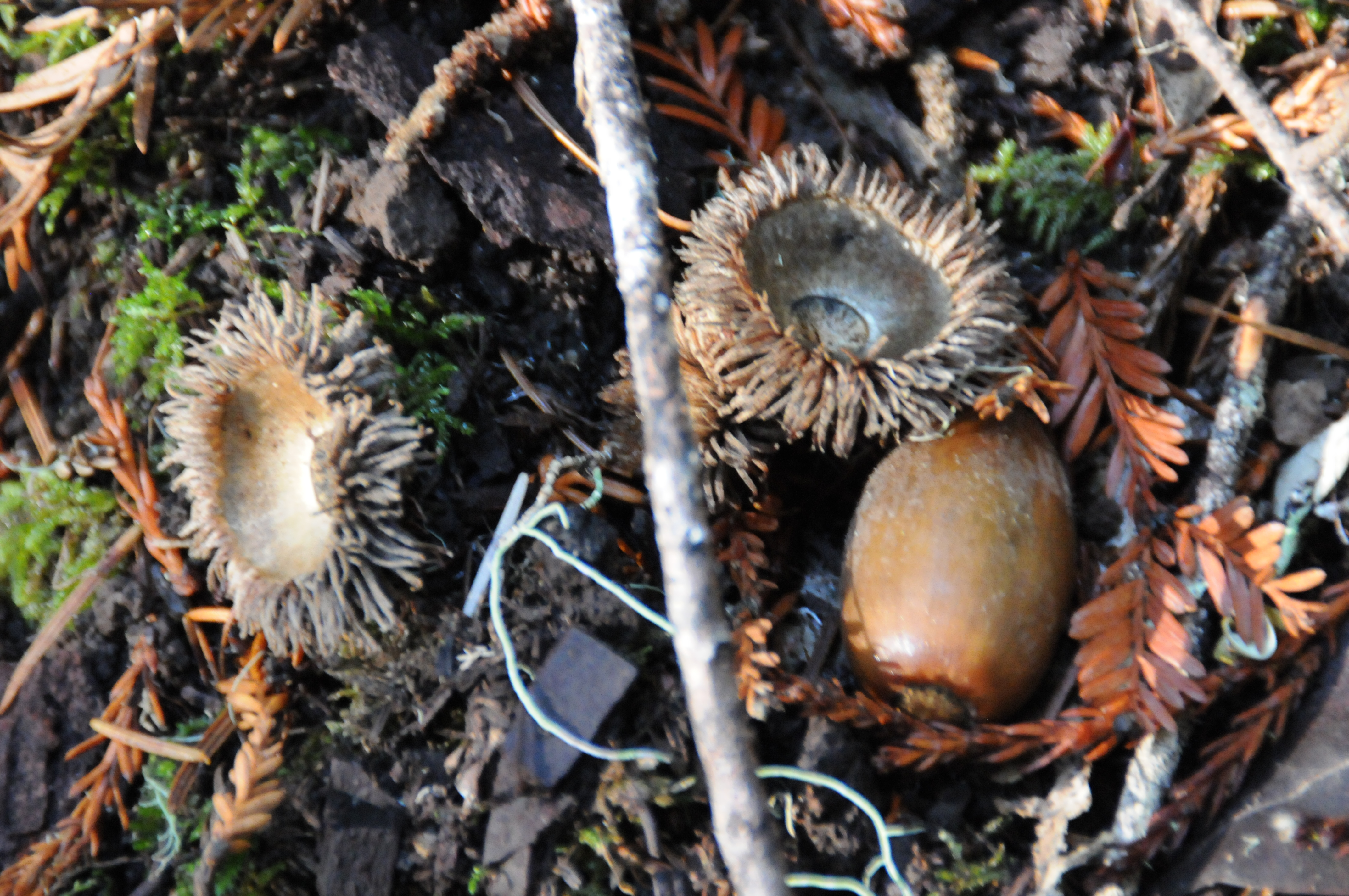 Tanoak Notholithocarpus densiflorus acorn and acorn cups, Big Basin Redwoods State Park, California